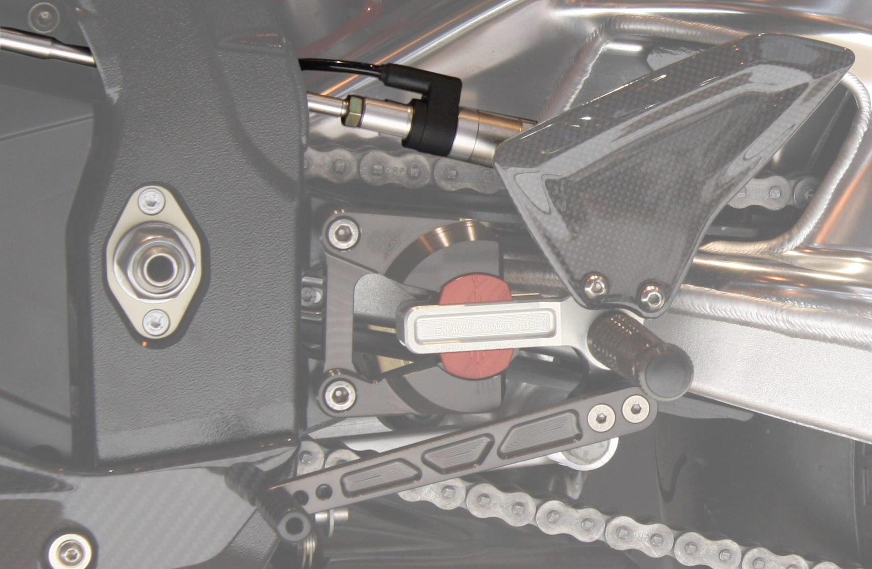 Highlighted Quicksifter